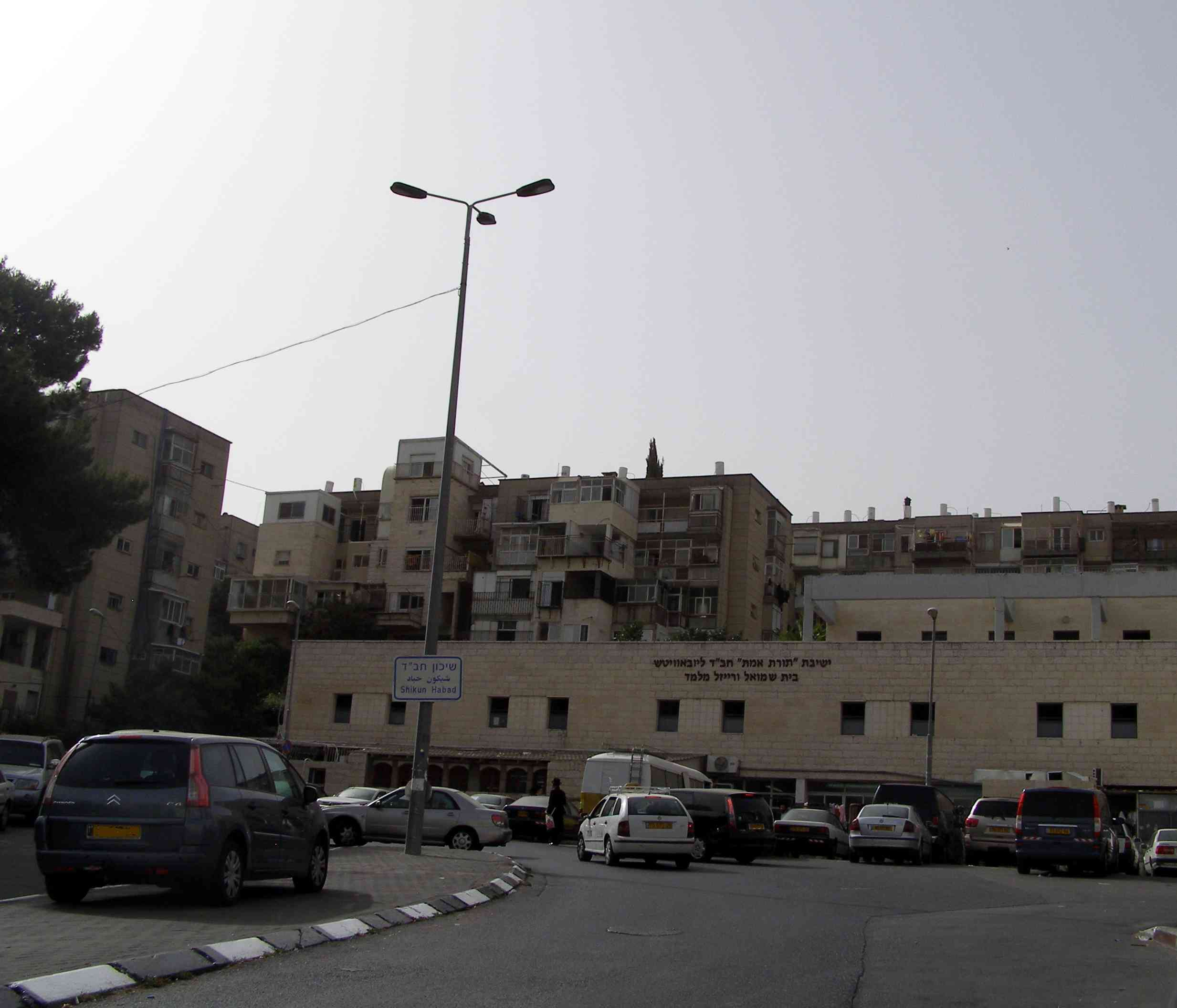 Ultra Ortodox Naighborhood in Jerusalem